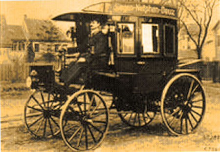 Benz Omnibus of 1895, built for Netphener bus company.